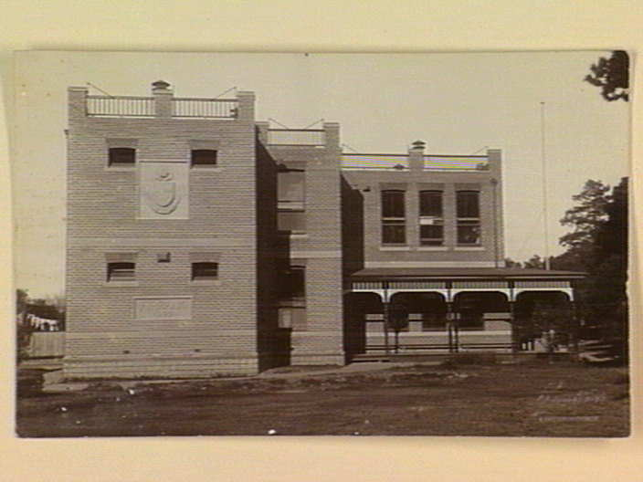 Image title:Firbank picture Description: Postcard featuring building of the Firbank Girls' Grammar School, ca.1912.